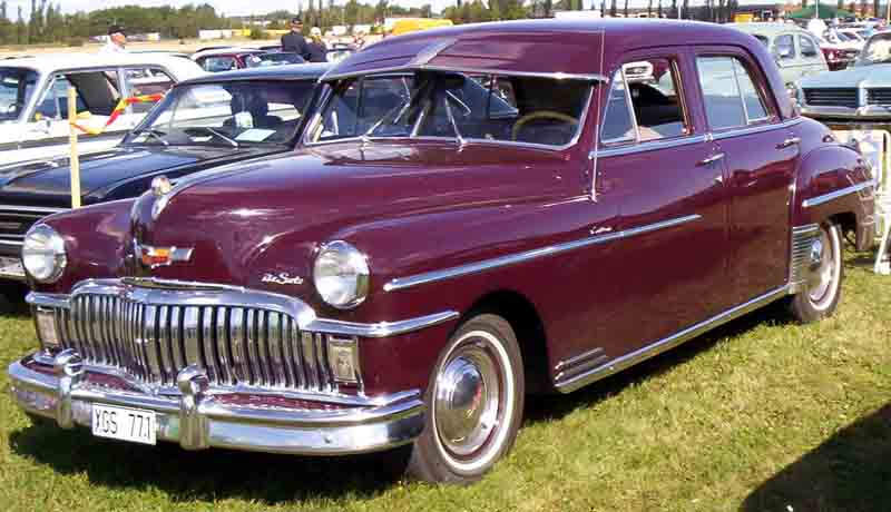 De Soto Custom Series 4-Door Sedan 1949